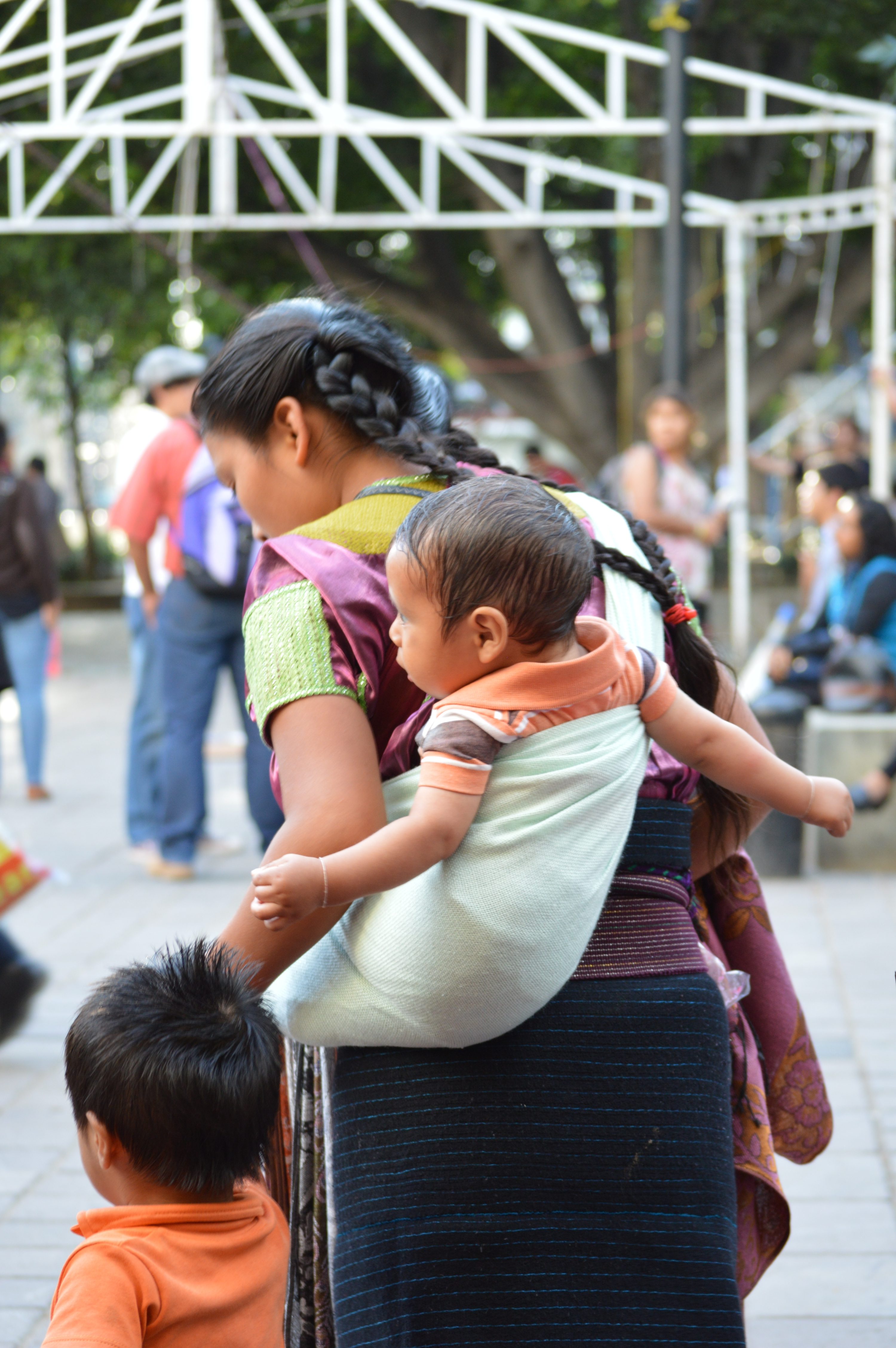 Young street vendor with baby carried in a rebozo in the main square of the city of Oaxaca, Mexico